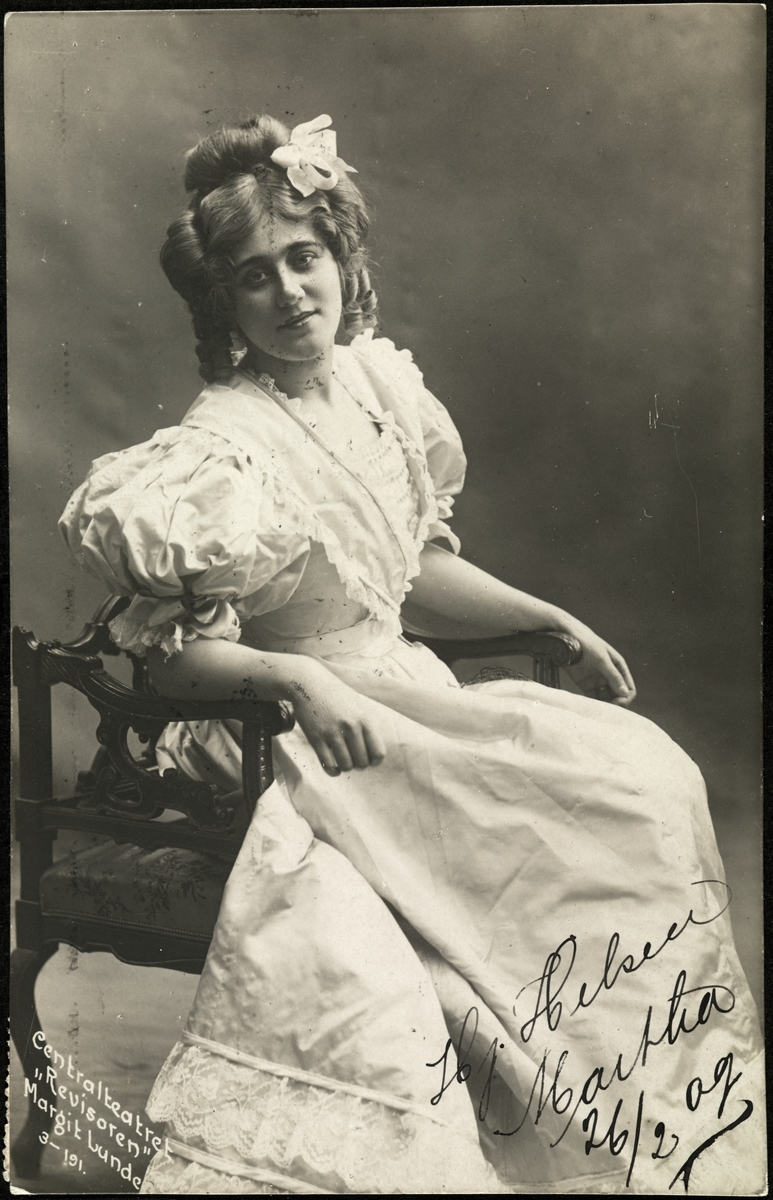 Norwegian opera singer and actress Margit Lunde in 1907, the performance "Revisoren" at Centralteatret in Oslo/Kristiania.